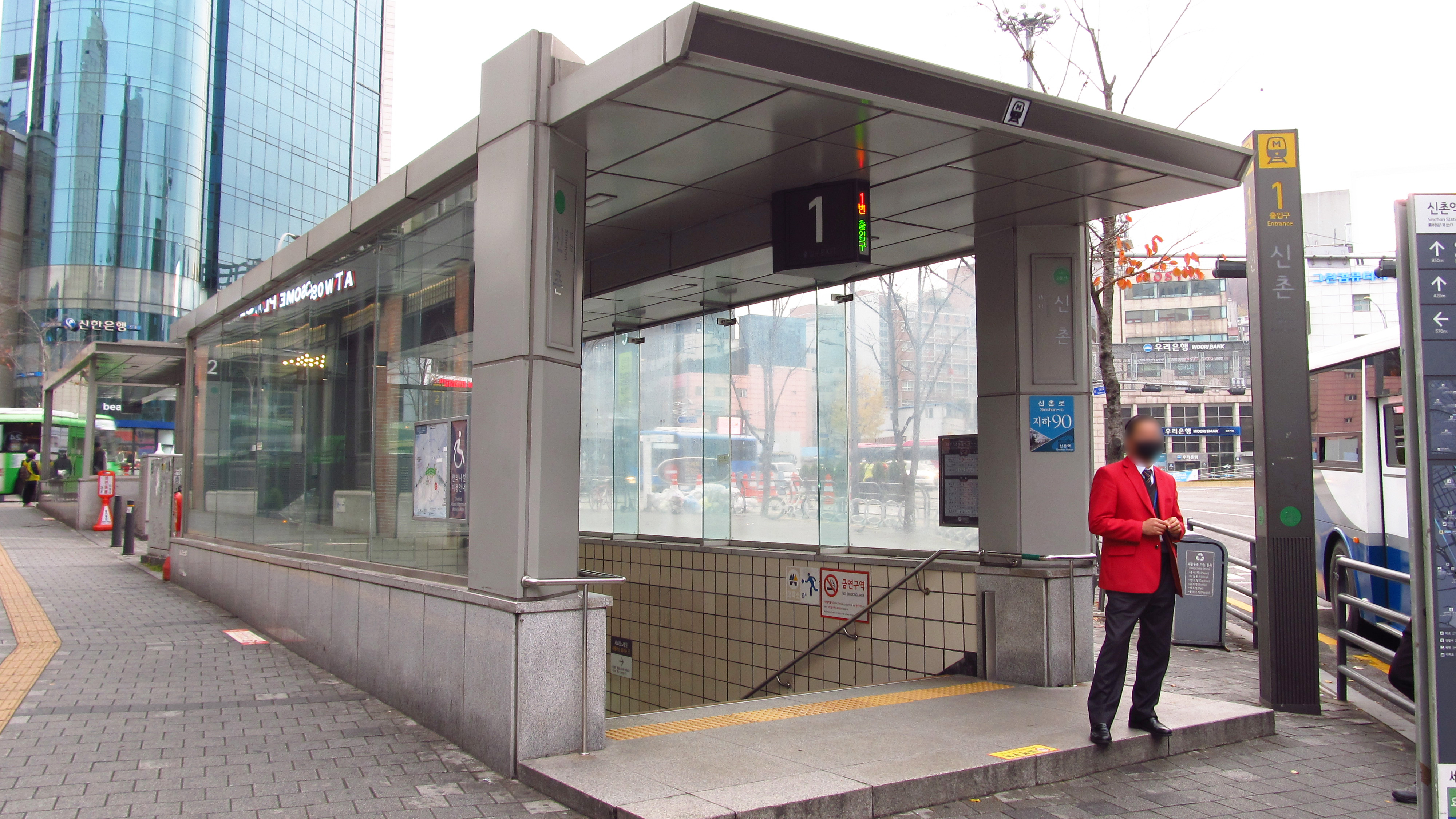 The no.1 entrance to Sinchon Station on the Seoul Metro Line 2 in Mapo-gu, Seoul, Republic of Korea(South Korea)